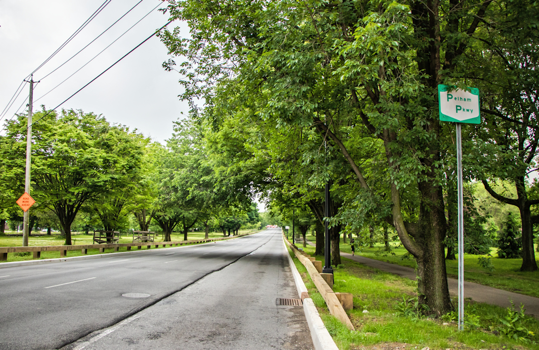 The Bronx and Pelham Parkway westbound with one of the fewest Pelham Parkway shields.